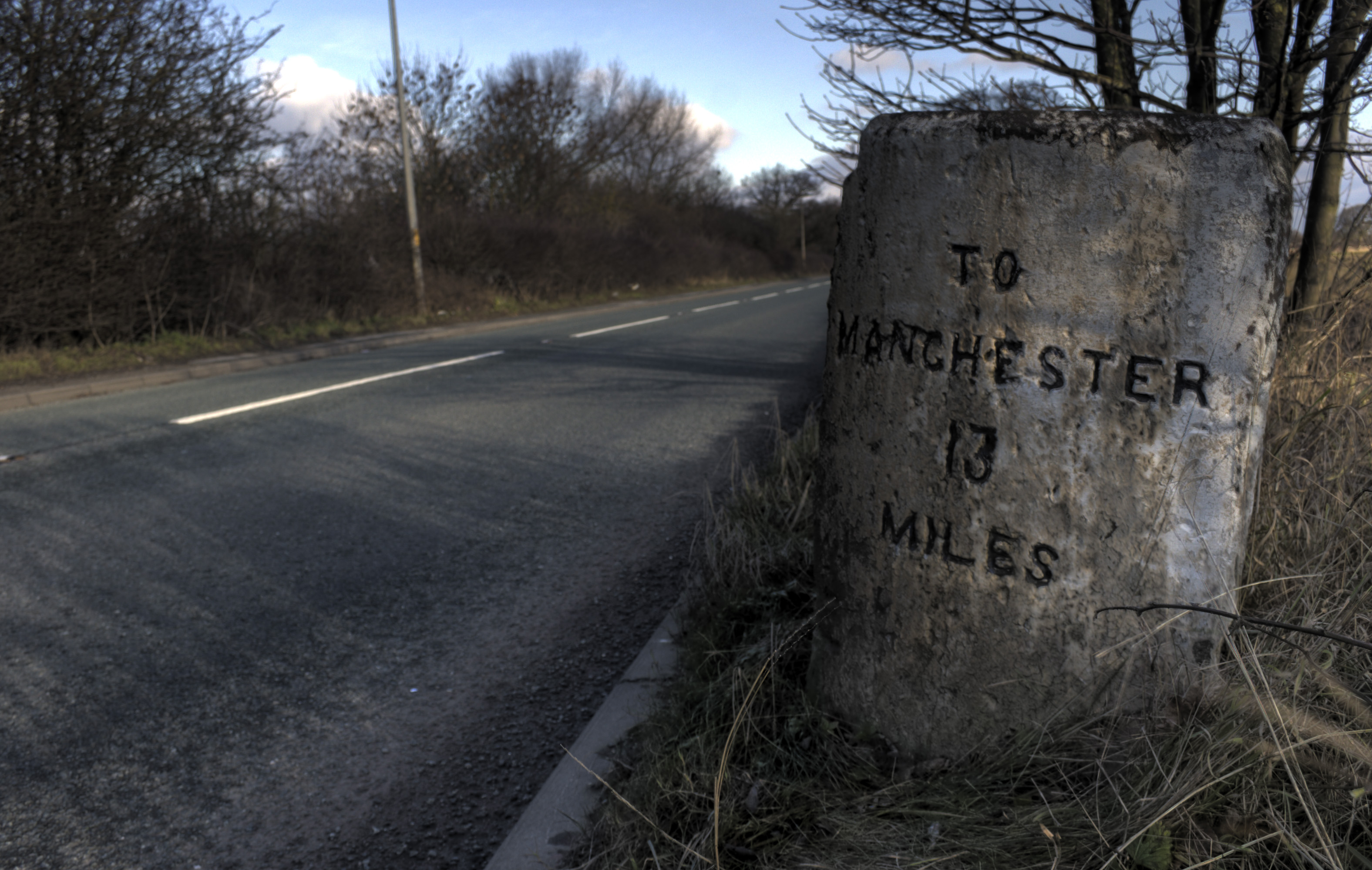 One of a series of milestones on the A57 road near Rixton in Cheshire, between Warrington in Cheshire, and Irlam in Greater Manchester. From the style of lettering, possibly an early 19th century stone probably erected by the Warrington and Lower Irlam Turnpike Trust (this trust was also called the Manchester Road Trust and was only responsible for about 8 miles of road). By the 1820s, many trusts were using cast iron mileposts so it likely dates from around 1810.